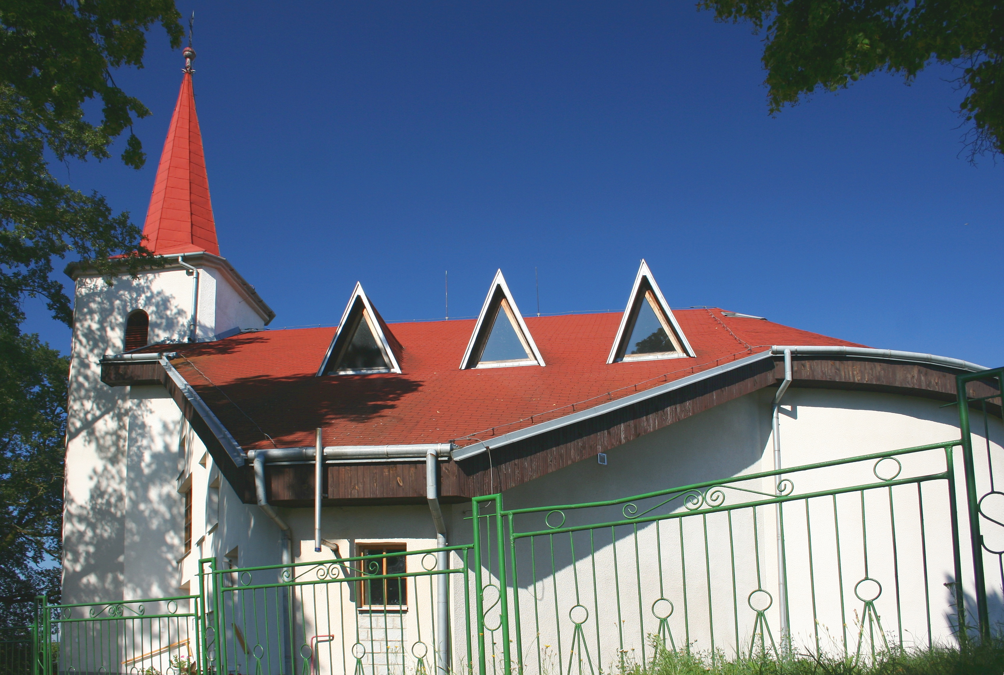 church in Tovarné, Slovakia